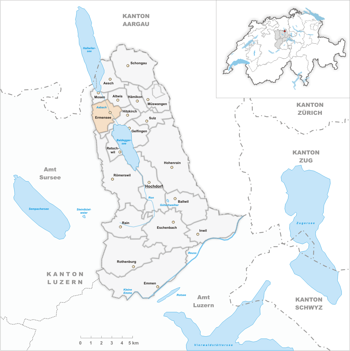 Municipality Ermensee